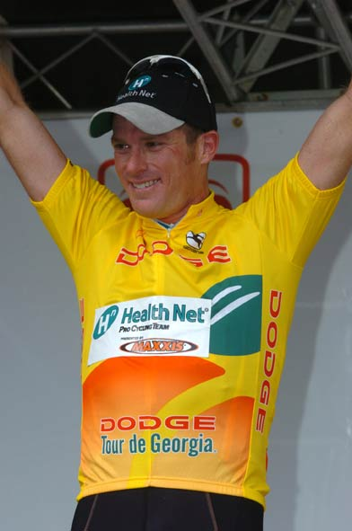 Gord Fraser (Tour of Georgia 2006)